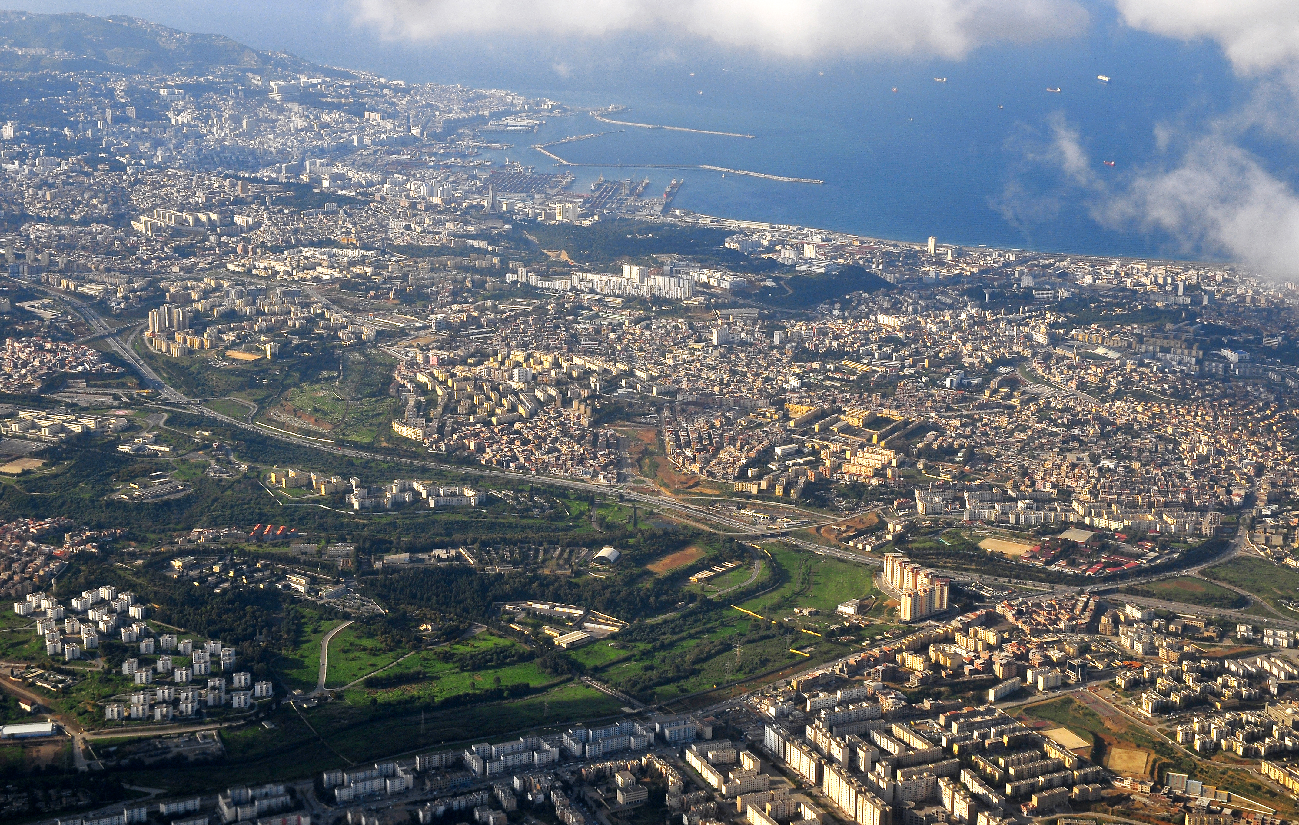 Aerial view of Algiers (Algeria)